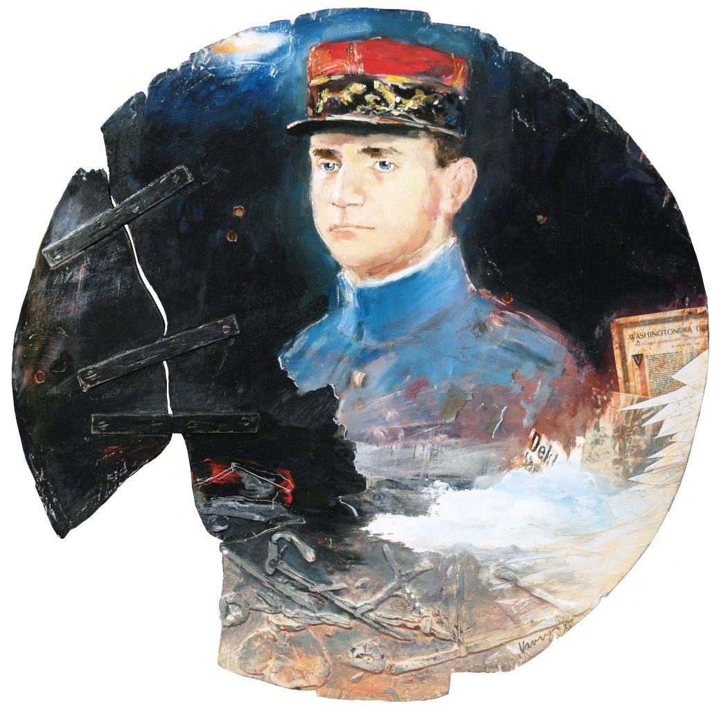 "General Milan Rastislav Štefánik" - a portrait from a picture cycle called "Czech Memory" (This cycle is dedicated to dramatic historical events and personalities who wrote the history of the independent state of Bohemia and the Slovaks from its origin (1918) to the present (2018); form of wok of art: painting on wood - circular "shooting target" with a diameter of 60 cm; Author: academic painter Pavel Vavrys; year: 2015.